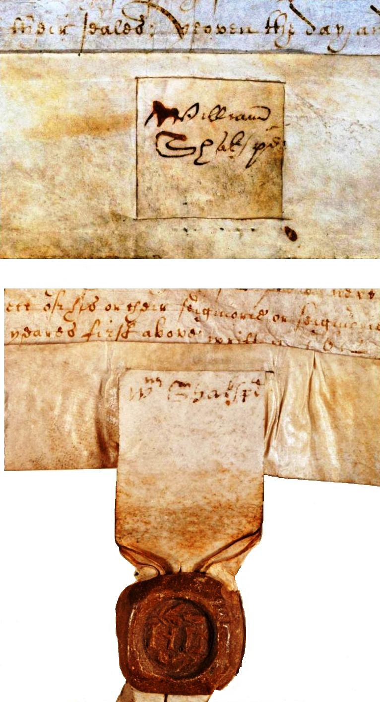 seals of Shakespeare, photographed and published in the 19th century